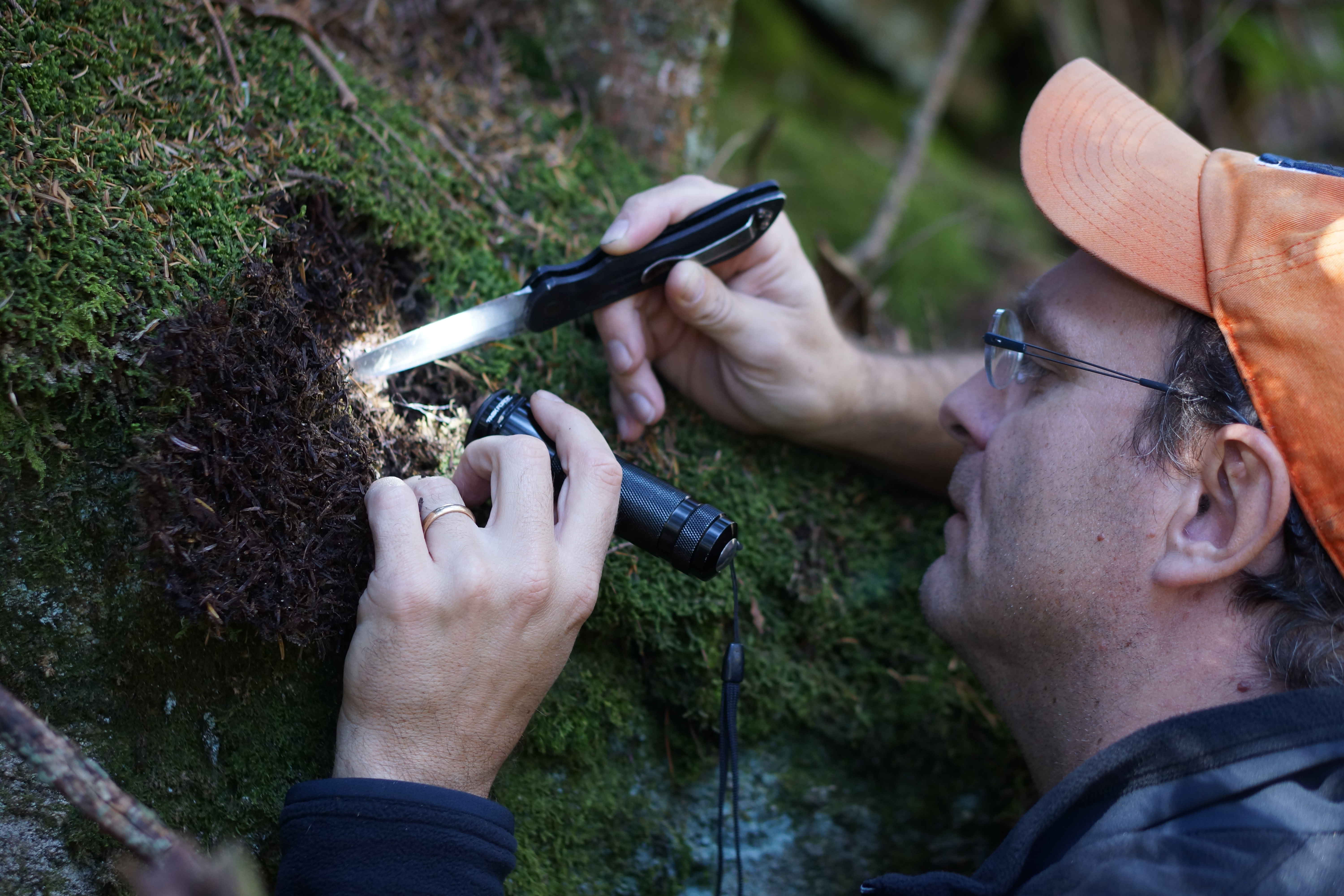 The spruce-fir moss spider is an endangered animal found only at the tops of the highest peaks in the eastern United States. This video follows a team of scientists as they search for the rare spider in order to carry specimens back to their lab for genetic analysis which will provide information to help guide future conservation efforts. The team included Dr. Marshal Hedin of San Diego State University; Dr. Fred Coyle, retired from Western Carolina University; Dr. Jason Bond of Auburn University; Service biologist Sue Cameron; and Service intern David Caldwell. Credit: Gary Peeples/USFWS